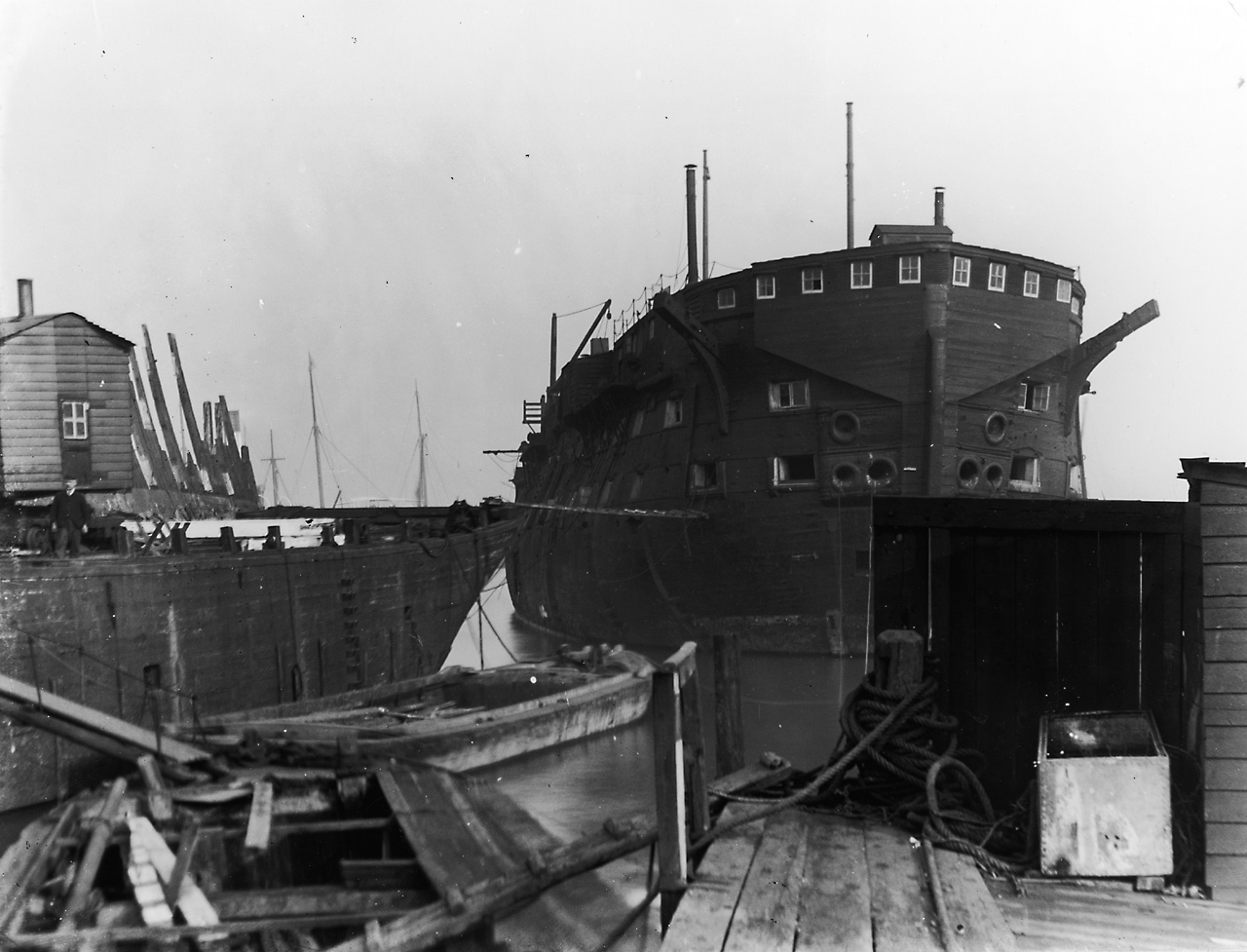 Reproduction ID: H0758 Maker: Unknown Date: Unknown